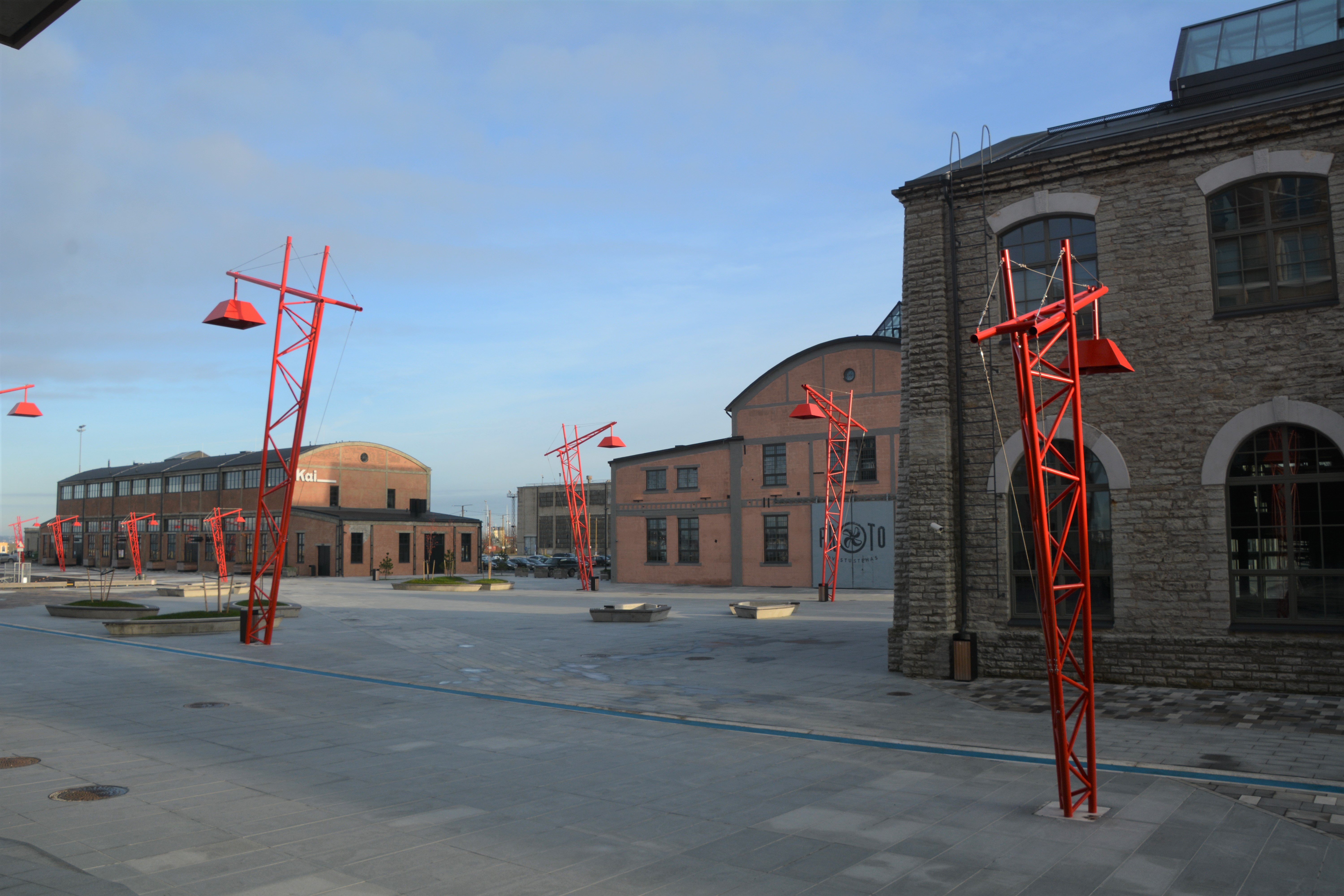 Noblessner area of Tallinn